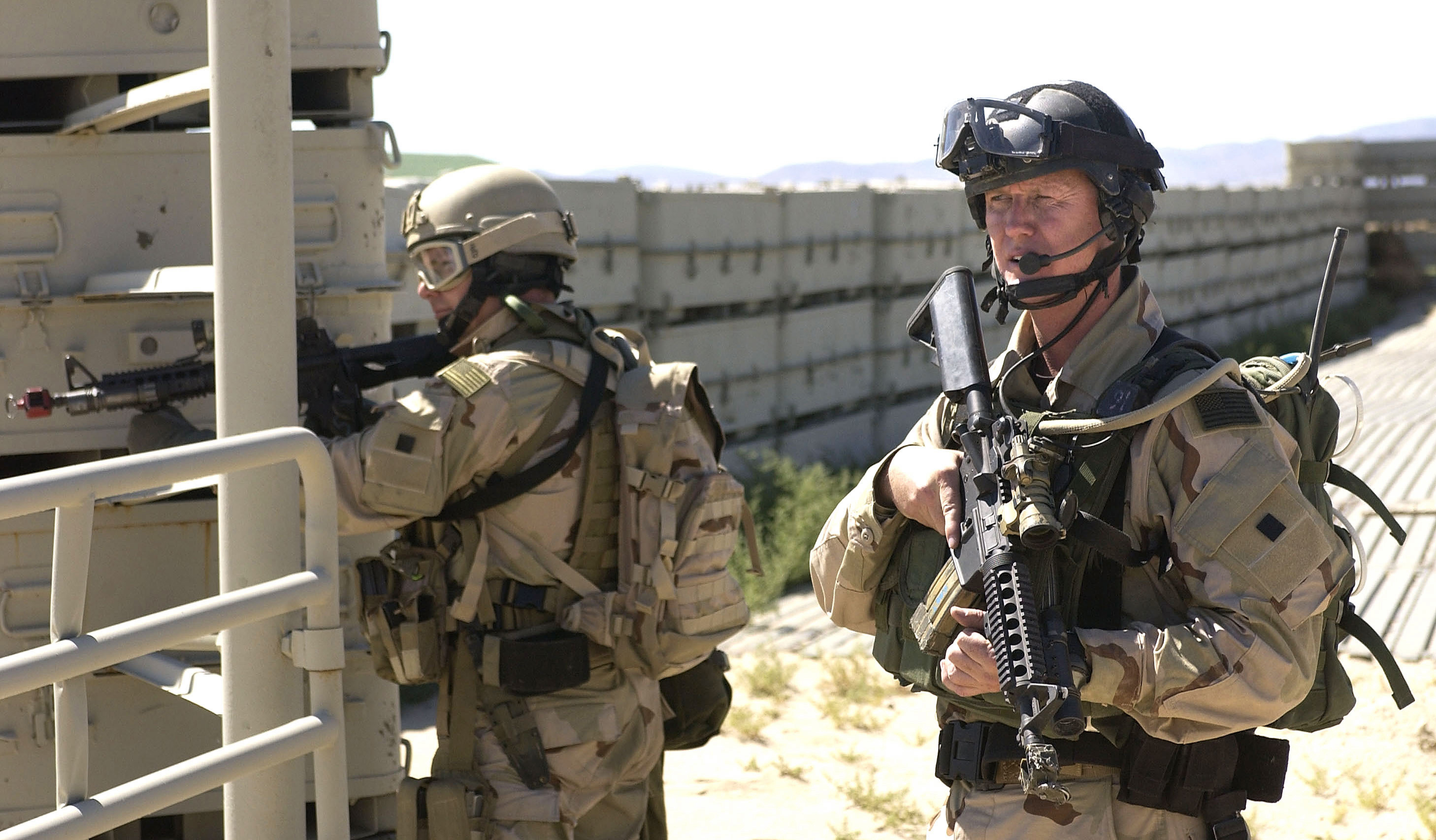 Navy SEAL (Sea, Air and Land) Team members secure a U.S. Embassy as part of a non-combatant evacuation exercise during Desert Rescue XI at Naval Air Station (NAS) Fallon, Nev. The exercise simulates the rescue of downed aircrew behind enemy lines enabling other aircrews to perform Combat Search and Rescue (CSAR) related missions as well as experiment with new techniques in realistic scenarios. Desert Rescue XI is a joint service CSAR training exercise hosted by the Naval Strike and Warfare Center.